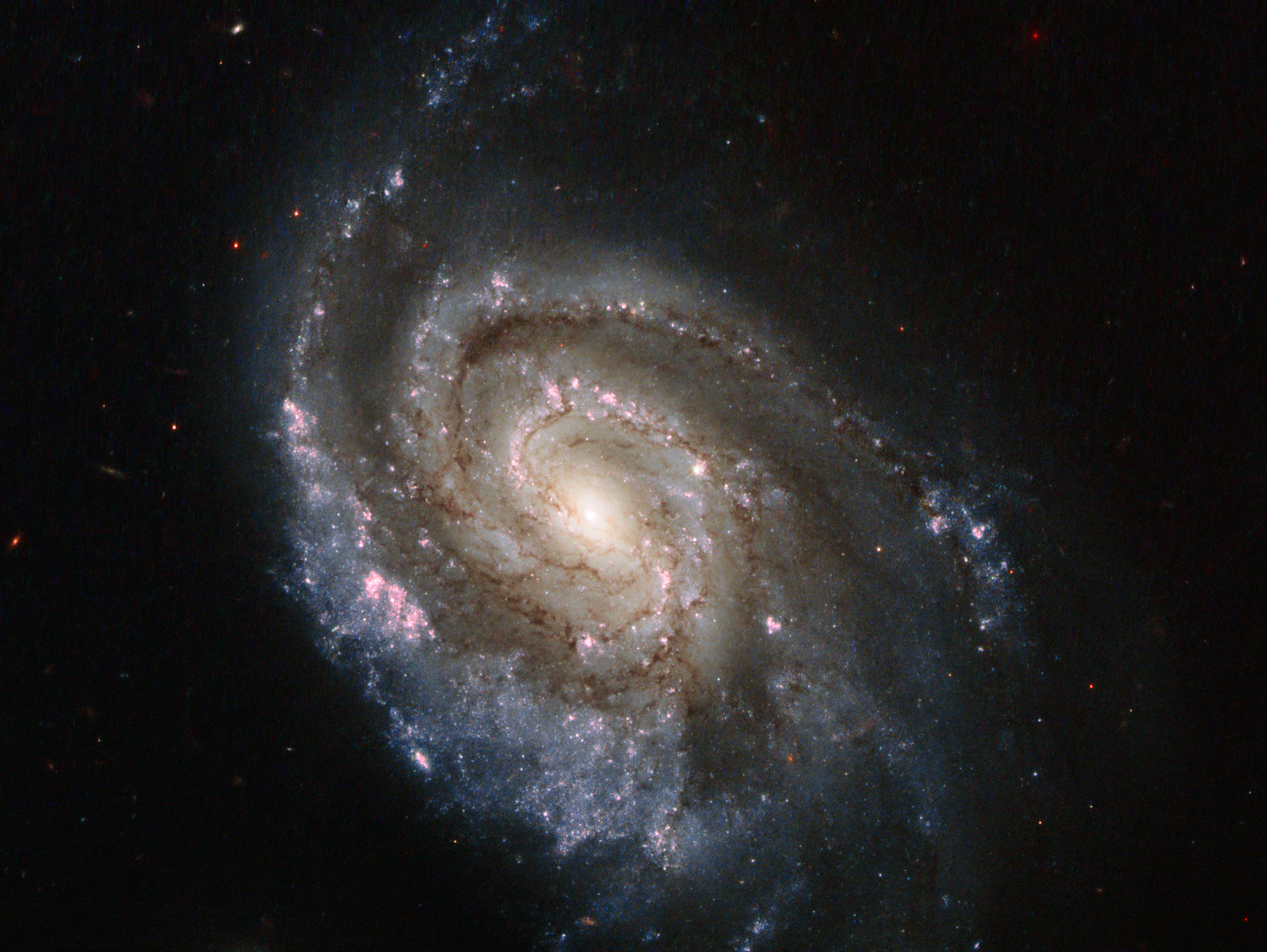 Supernovae are intensely bright objects. They are formed when a star reaches the end of its life with a dramatic explosion, expelling most of its material out into space. The subject of this new Hubble image, spiral galaxy NGC 6984, played host to one of these explosions back in 2012, known as SN 2012im. Now, another star has exploded, forming supernova SN 2013ek — visible in this image as the prominent, star-like bright object just slightly above and to the right of the galaxy's centre. SN 2012im is known as a Type Ic supernova, while the more recent SN 2013ek is a Type Ib. Both of these types are caused by the core collapse of massive stars that have shed — or lost — their outer layers of hydrogen. Type Ic supernovae are thought to have lost more of their outer envelope than Type Ib, including a layer of helium. The observations that make up this new image were taken on 19 August 2013, and aimed to pinpoint the location of this new explosion more precisely. It is so close to where SN 2012im was spotted that the two events are thought to be linked; the chance of two completely independent supernovae so close together and of the same class exploding within one year of one another is a very unlikely event. It was initially suggested that SN 2013ek may in fact be SN 2012im flaring up again, but further observations support the idea that they are separate supernovae — although they may be closely related in some as-yet-unknown way.